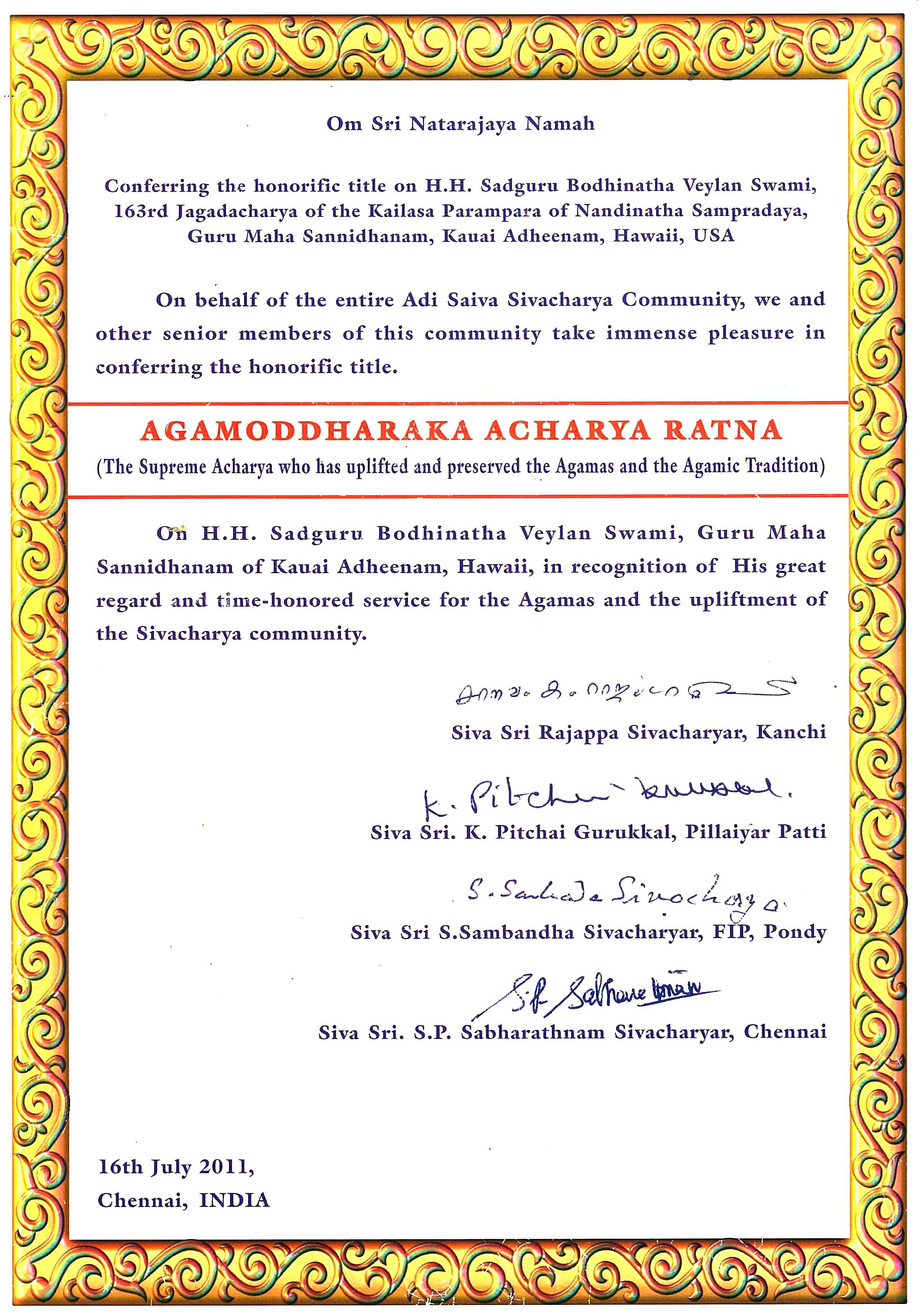 Satguru Bodhinatha Veylanswami's plaque of appreciation from the South Indian Sivachariyar priestly community